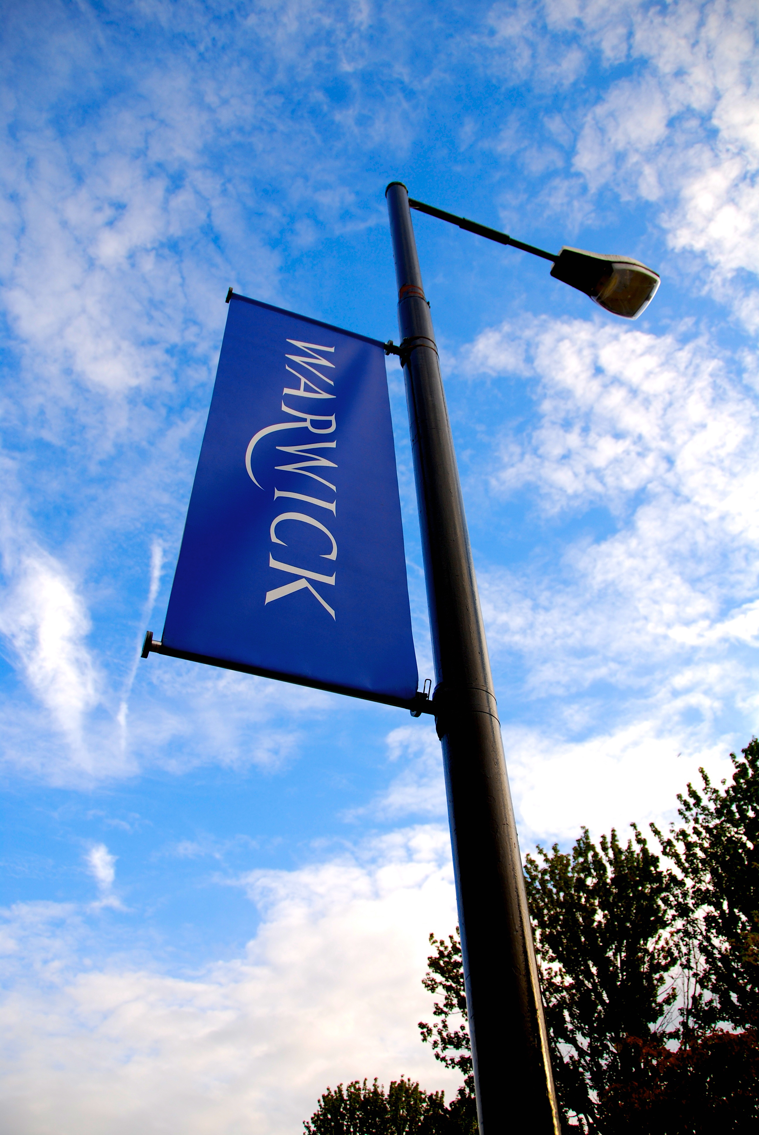 Warwick logo an a flag on University Road, The University of Warwick